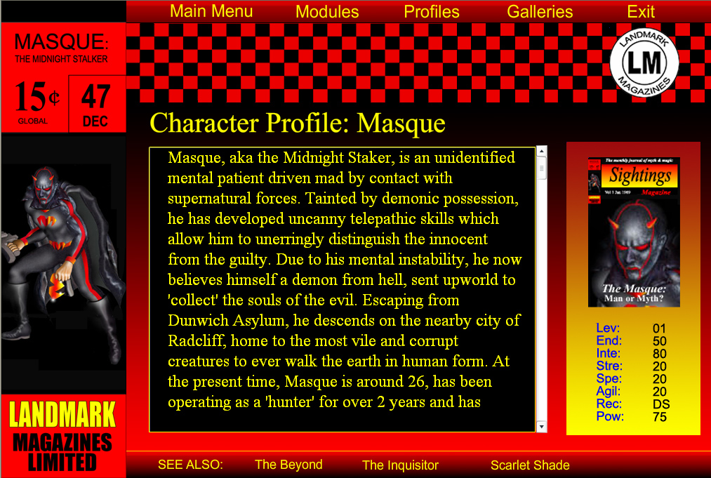 Mock-up illustration depicting an online character profile for a superhero-themed RPG. Artwork by Simon Kirby; traditional media enhanced in photoshop. Educational purpose: to illustrate terms such as role playing game, character editor, character profile, non/player character etc.